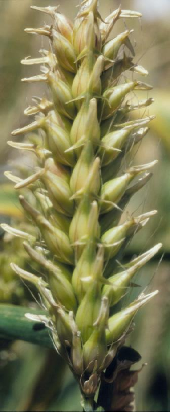 Six row barley differs generally from other Hordeum species in having the lateral pair of spikelets at each node being seed bearing. This is the hooded or beardless (awnless) form of six row barley.